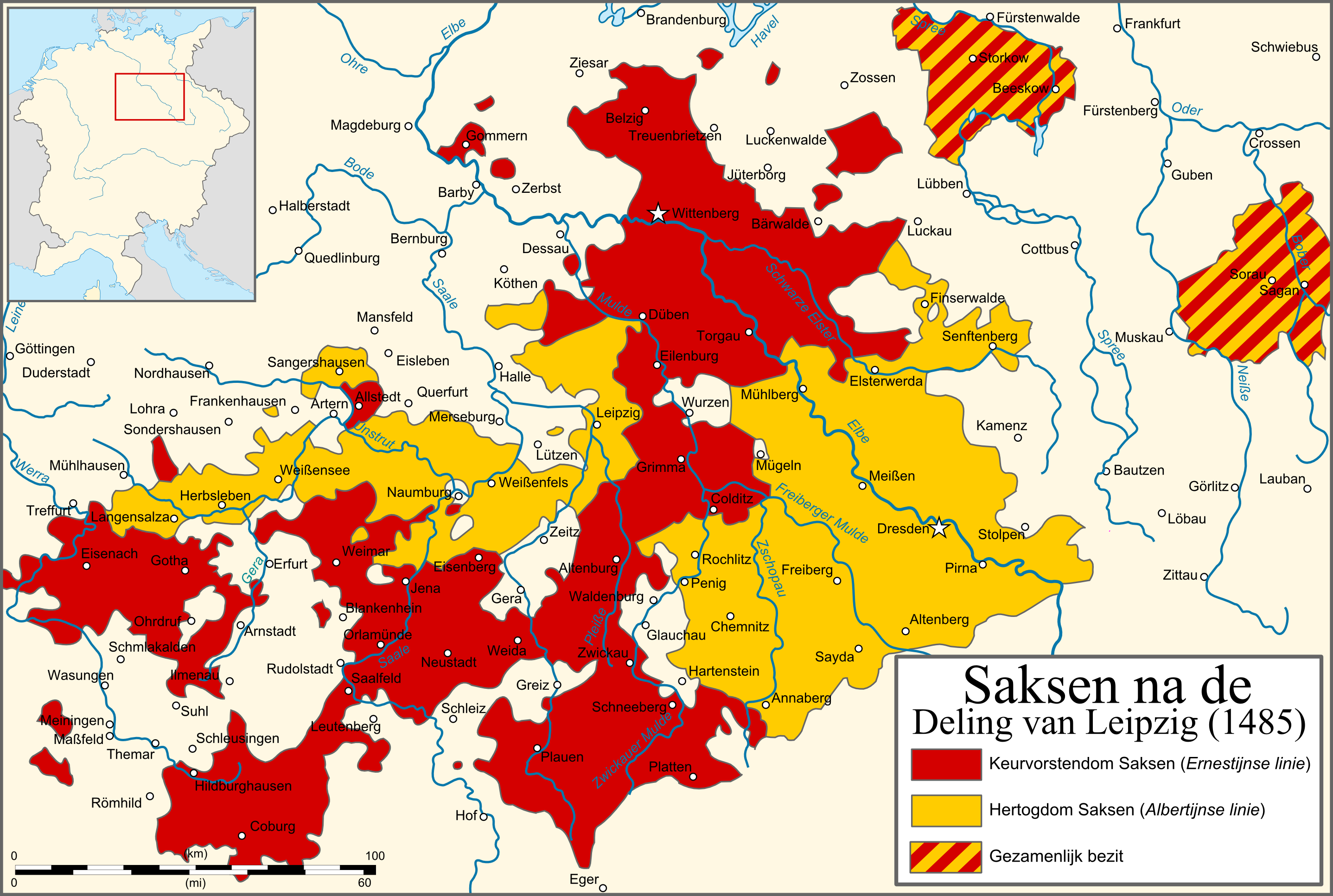 Map of Saxony after the Division of Leipzig (1485). Dutch version.